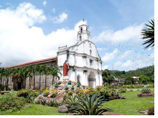 An Isometric View of Mulanay Church